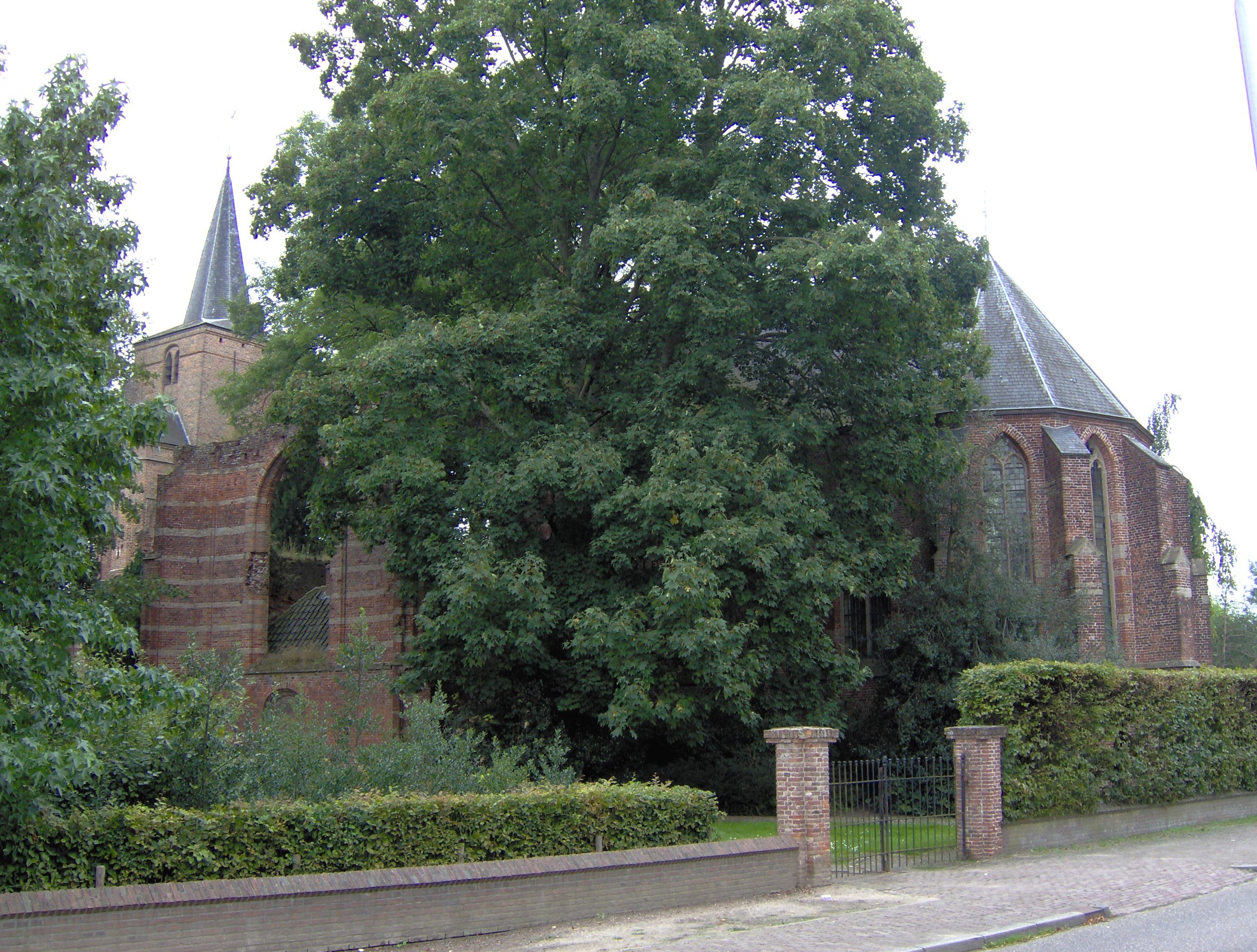 Church of Ammerzoden, a village on the banks of the river Maas in the west of the province of Gelderland in the Netherlands